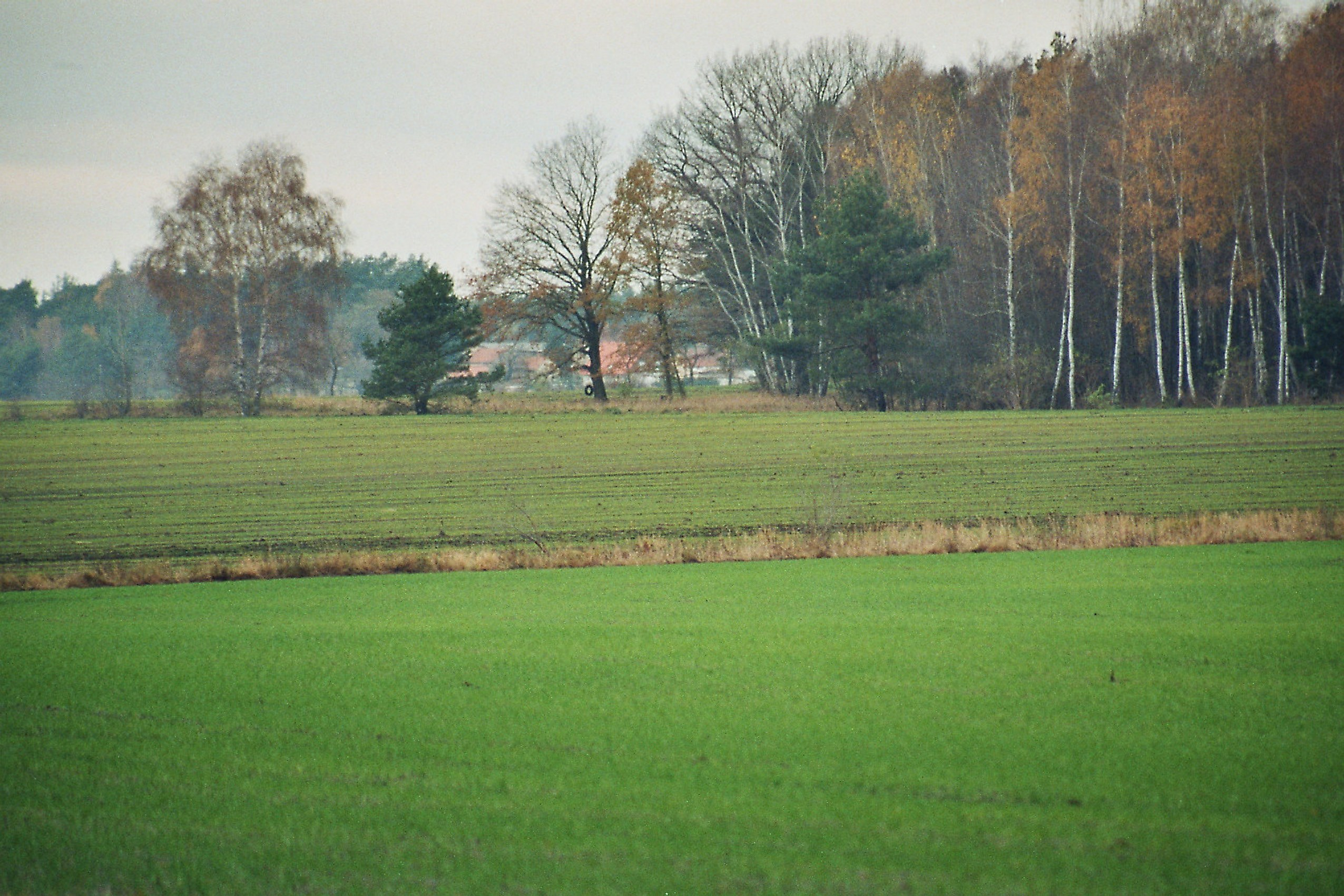 Schilda (Brandenburg), landscape